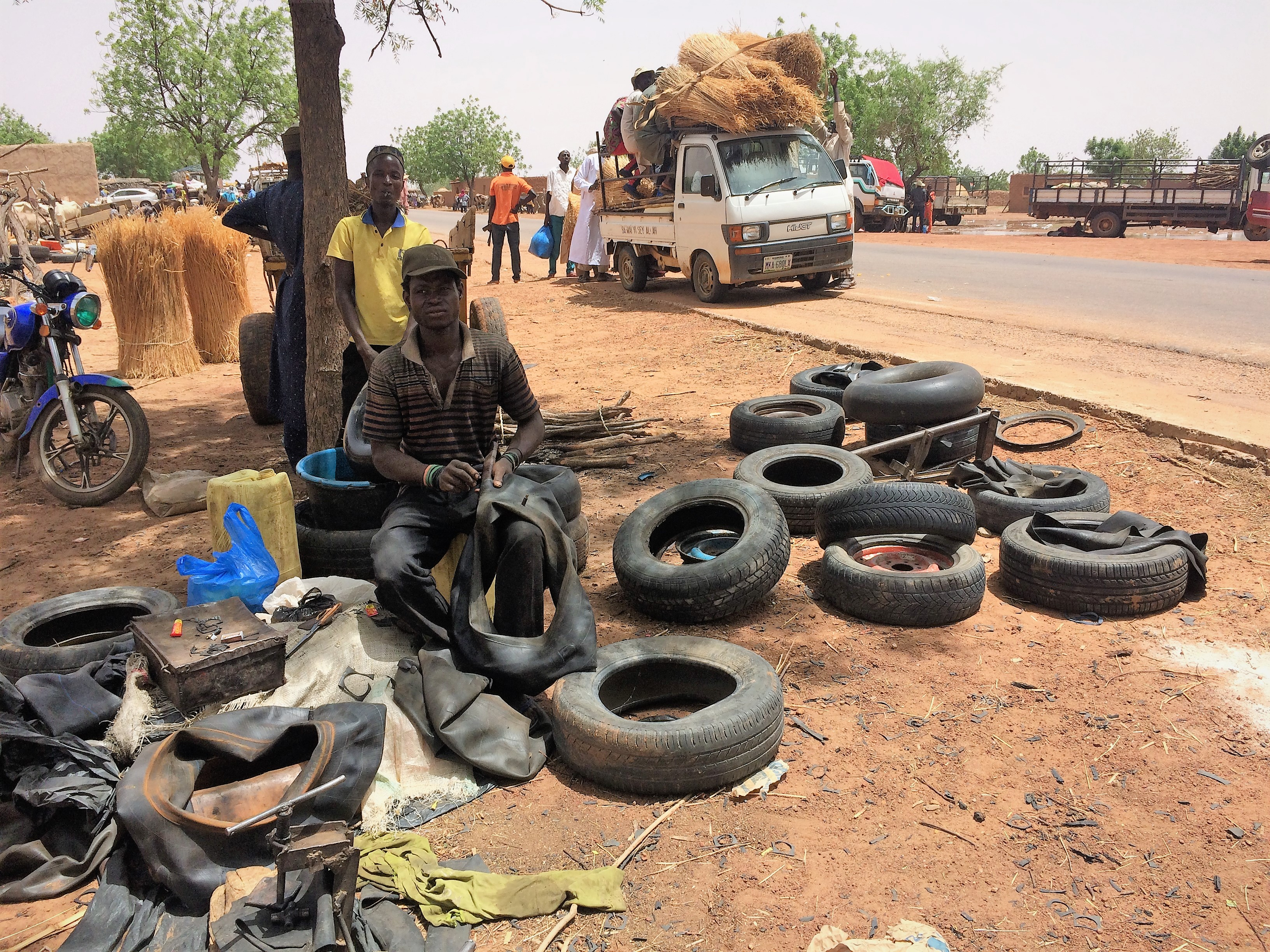 A tire repair shop in Kodo, a village in Niger (Fakara commune, Boboye department, Dosso region).